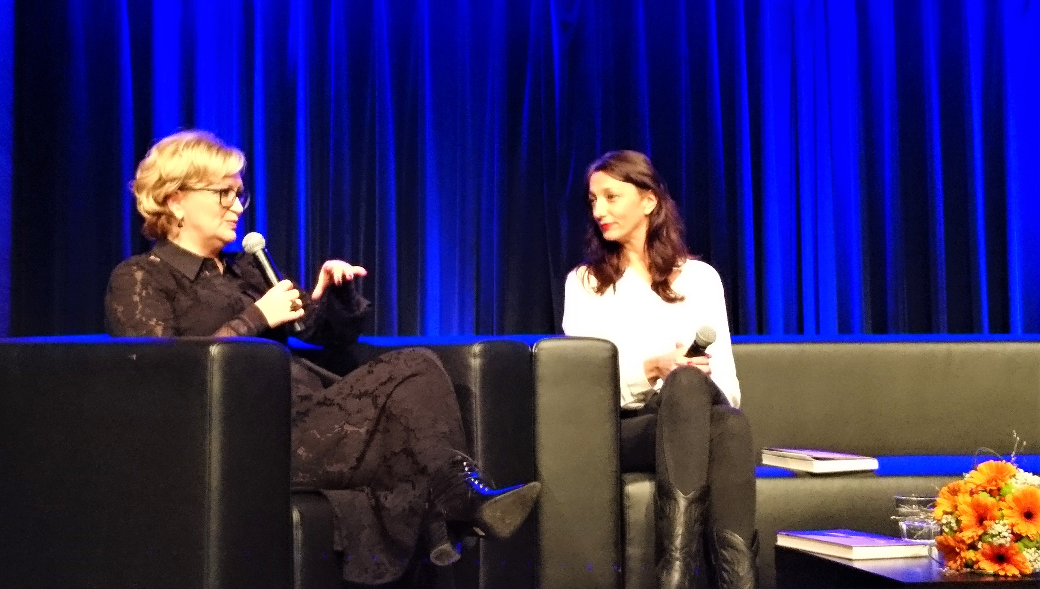 Ksenija Benedetti - Kažipoti - sonatina o odnosih in kulturi srca (book introduction)